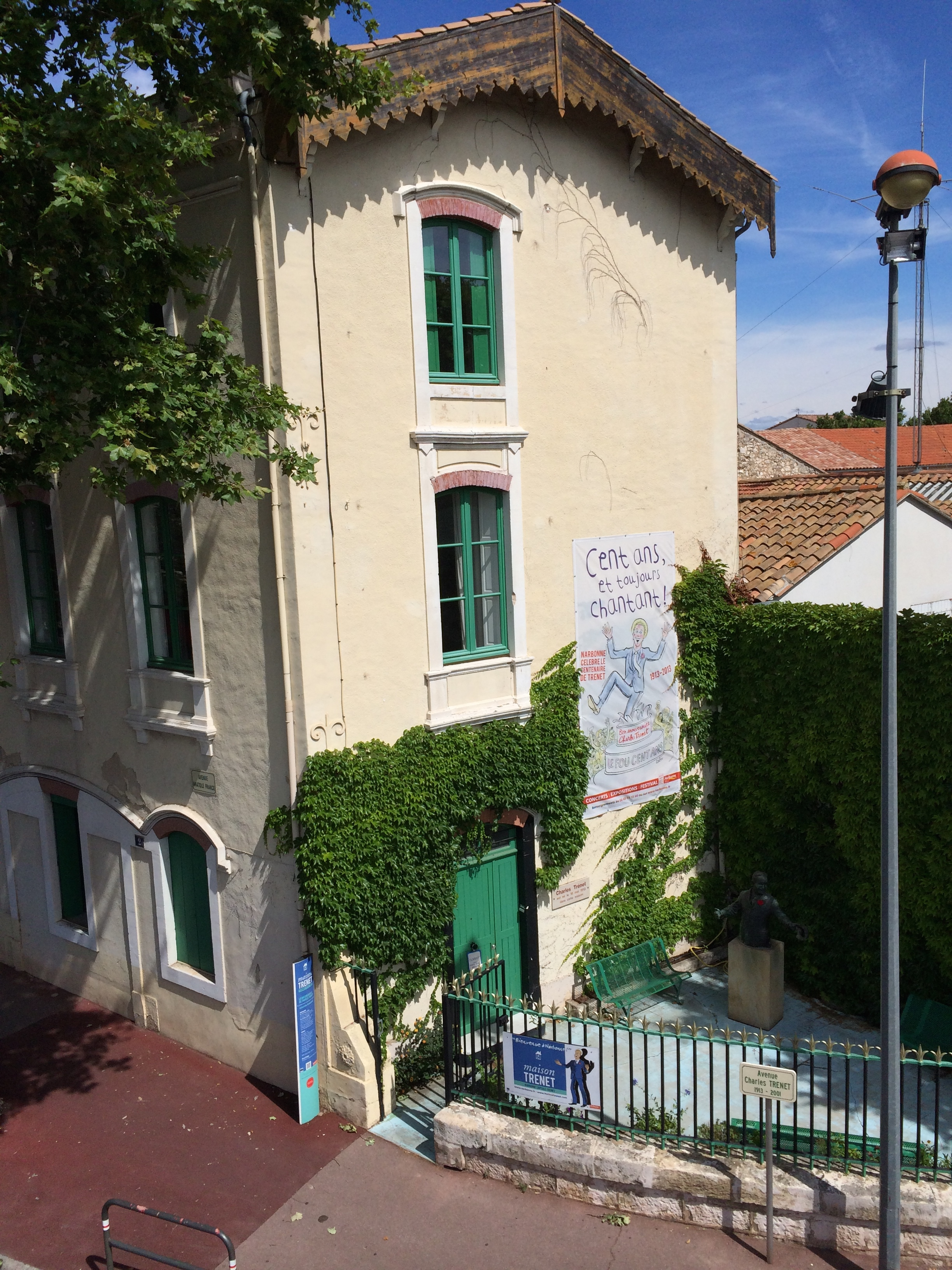 The house where Charles Trenet was born, in Narbonne, France. Today, it is the Charles Trenet Museum.